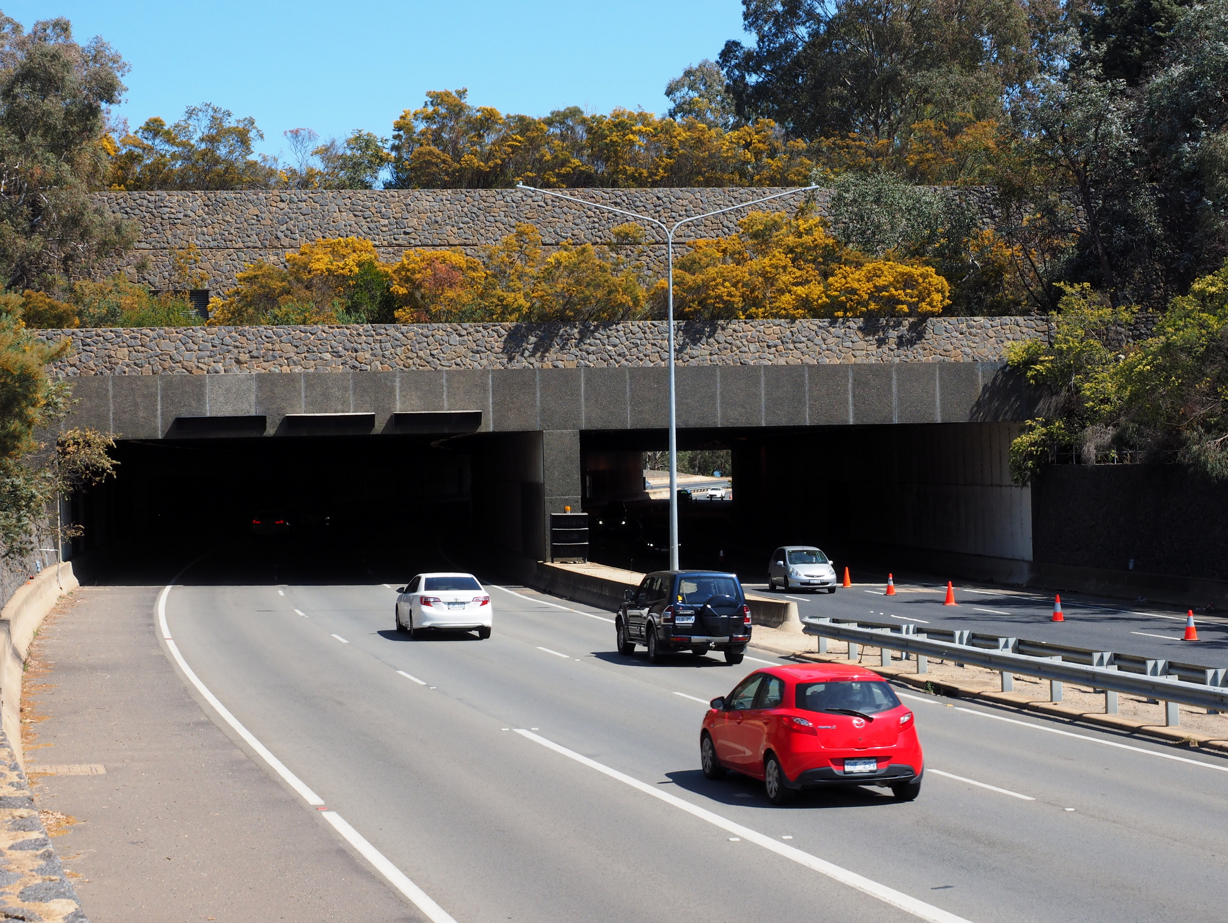 The eastern side of Acton Tunnel